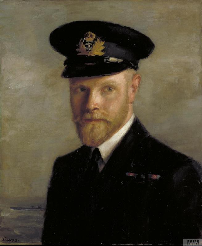 Three quarters length portrait of Lt Cmd GE Hunt in uniform